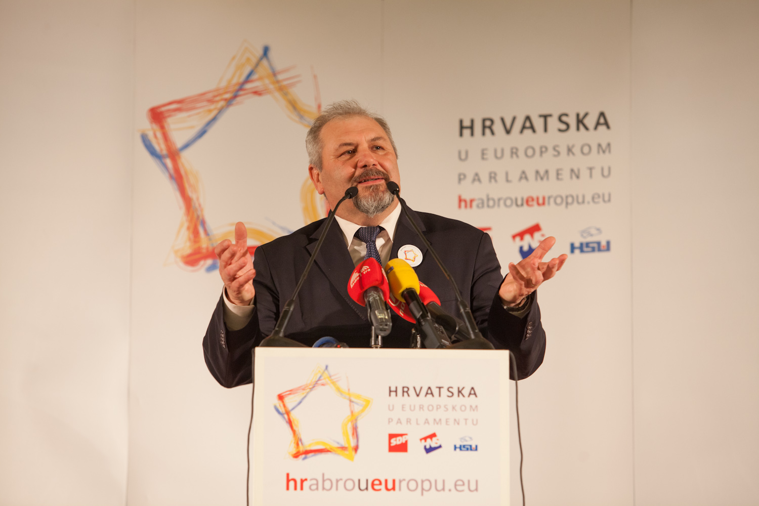 Silvano Hrelja at an SDP-HNS-HSU meeting in Pula, Croatia.